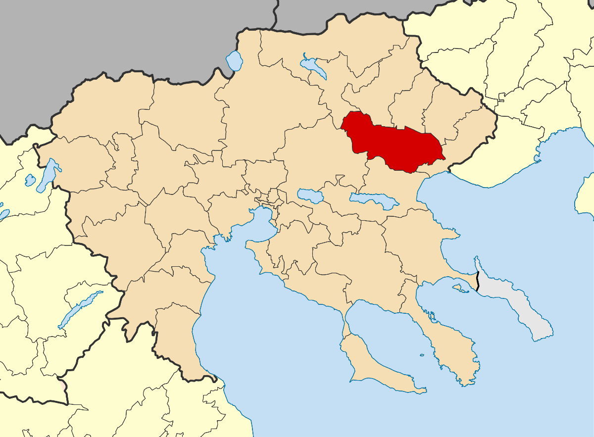 Locator map for Visaltia municipality in Greek region Central Macedonia (2011)